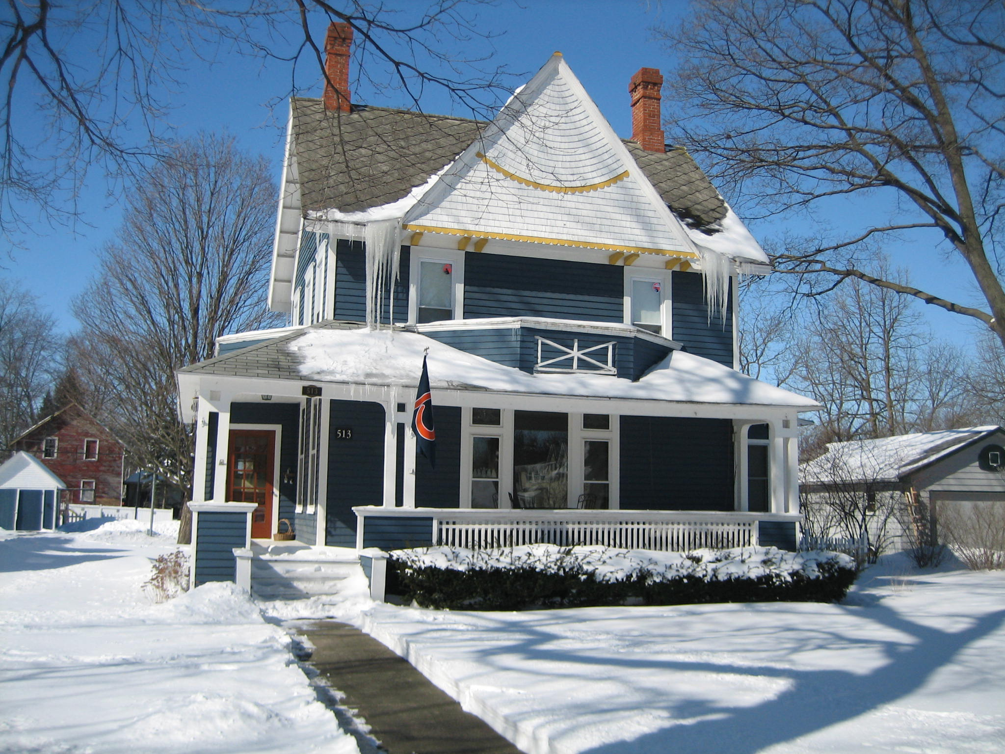 513 S Main St., William Phelps House, Sycamore, Illinois. Sycamore Historic District, National Register of Historic Places.